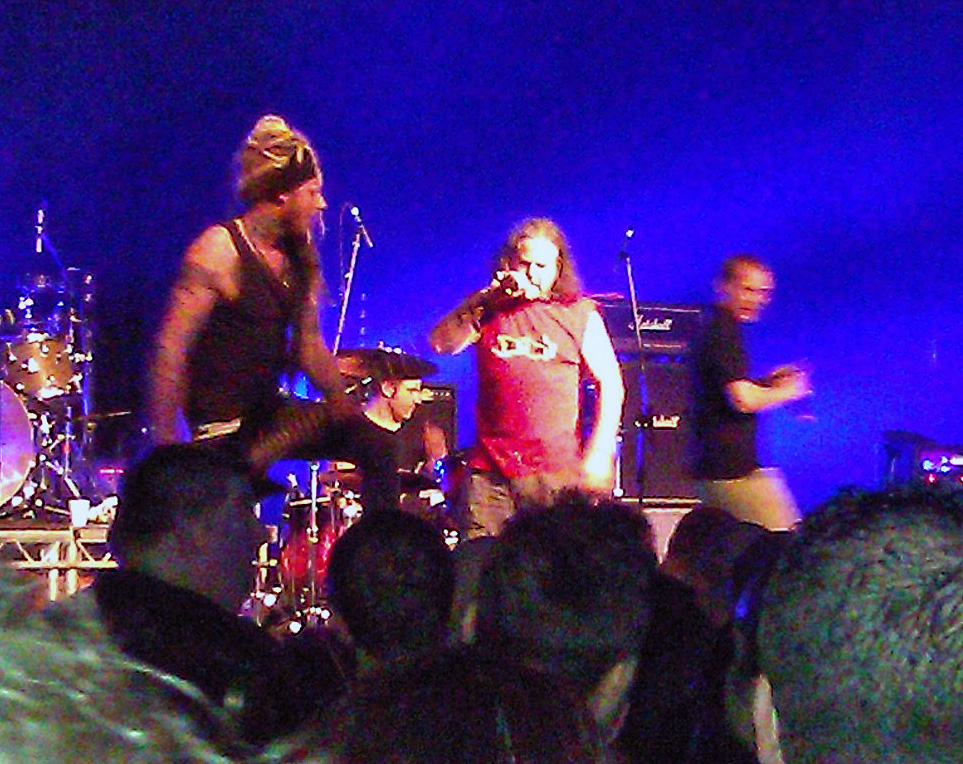 Pop Will Eat Itself live in Birmingham last night (22nd December 2012). I took the photo myself.